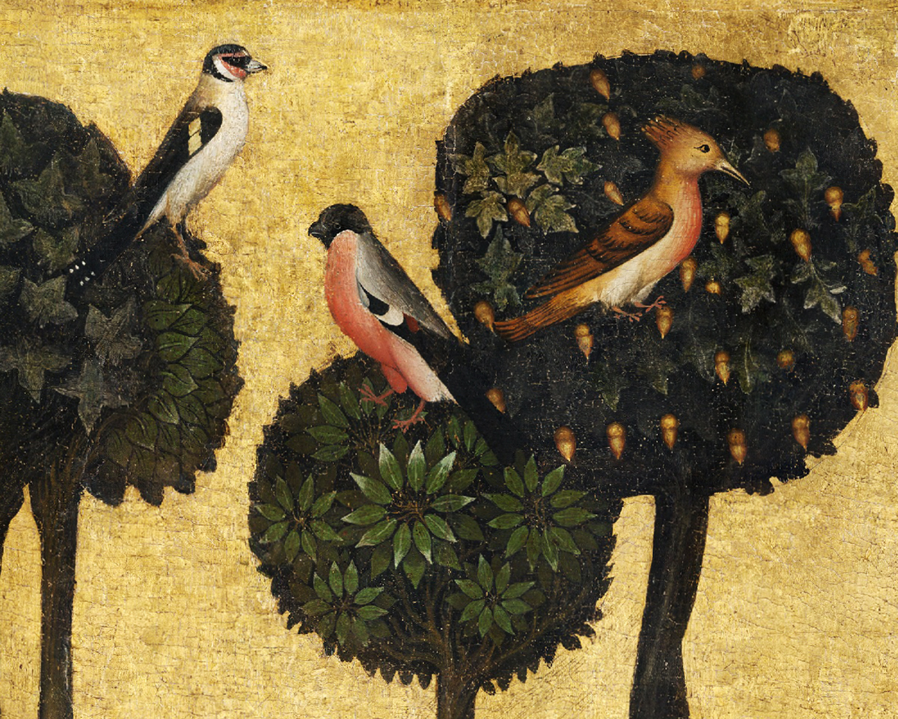 Hohenfurth Altarpiece - Christ on the Mount of Olives (detail), National Gallery in Prague